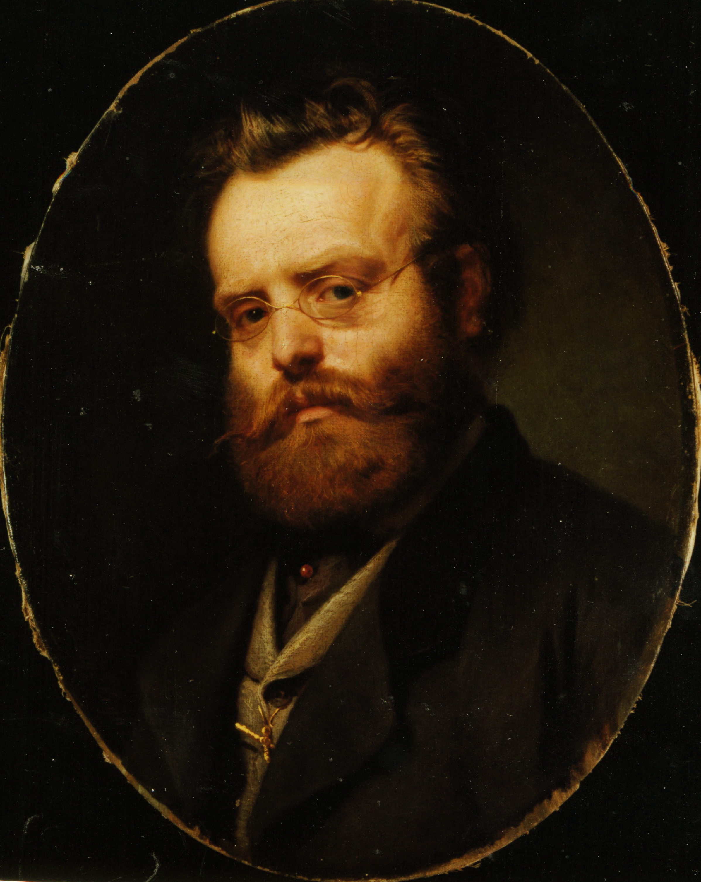 Heinrich Höfer, Self-portrait (ca. 1865), oil/canvass, 17x23 cm